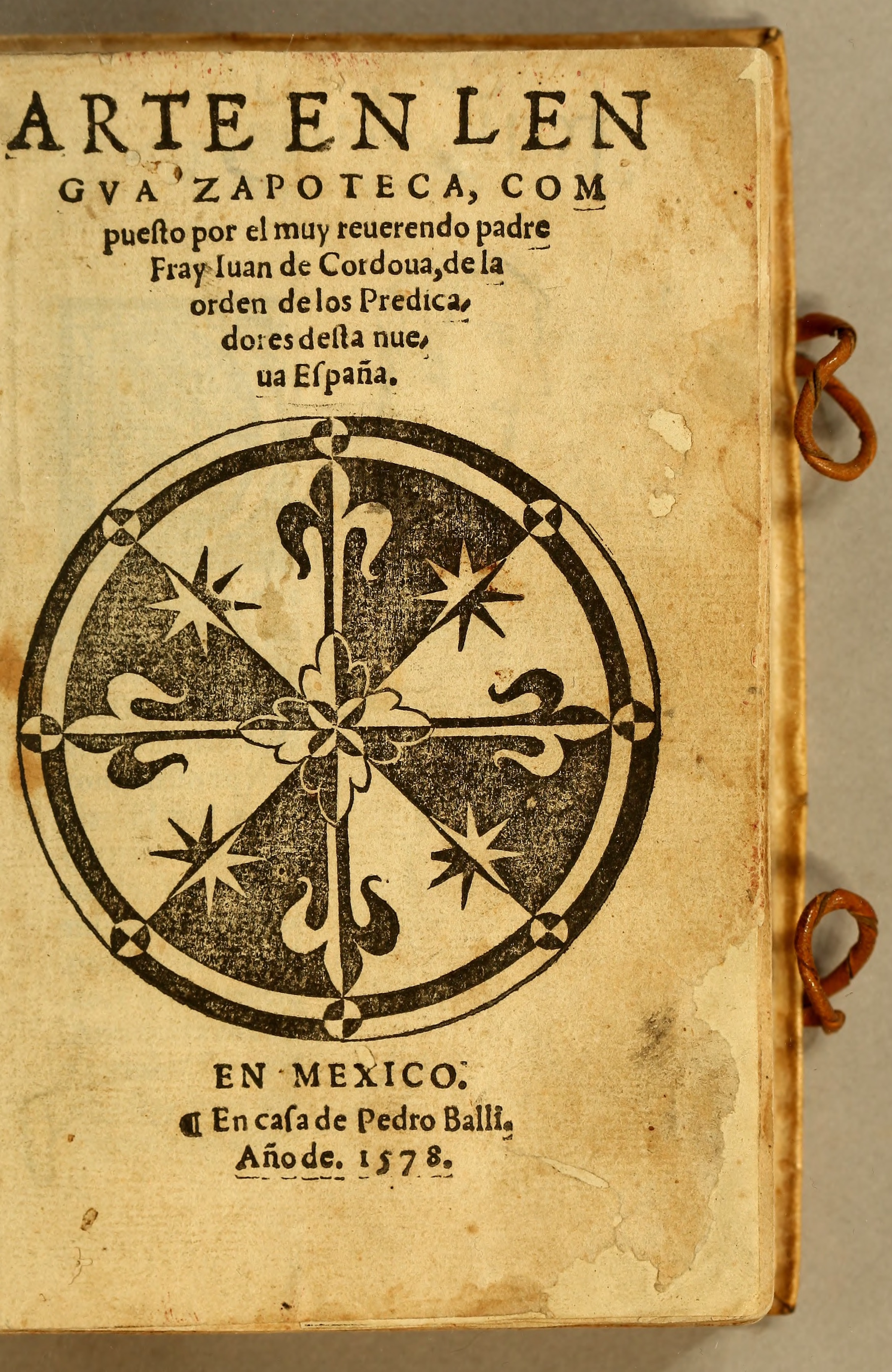 Title page of Arte en lengua zapoteca (1578) by Juan de Córdoba